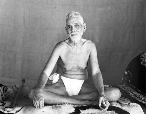 Indian mystic Ramana Maharshi, 1879-1950